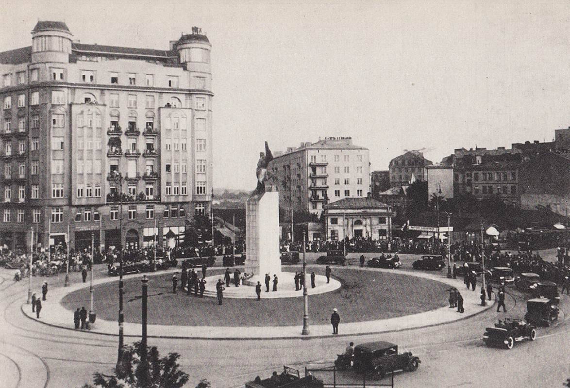 Unii Lubelskiej Square in Warsaw